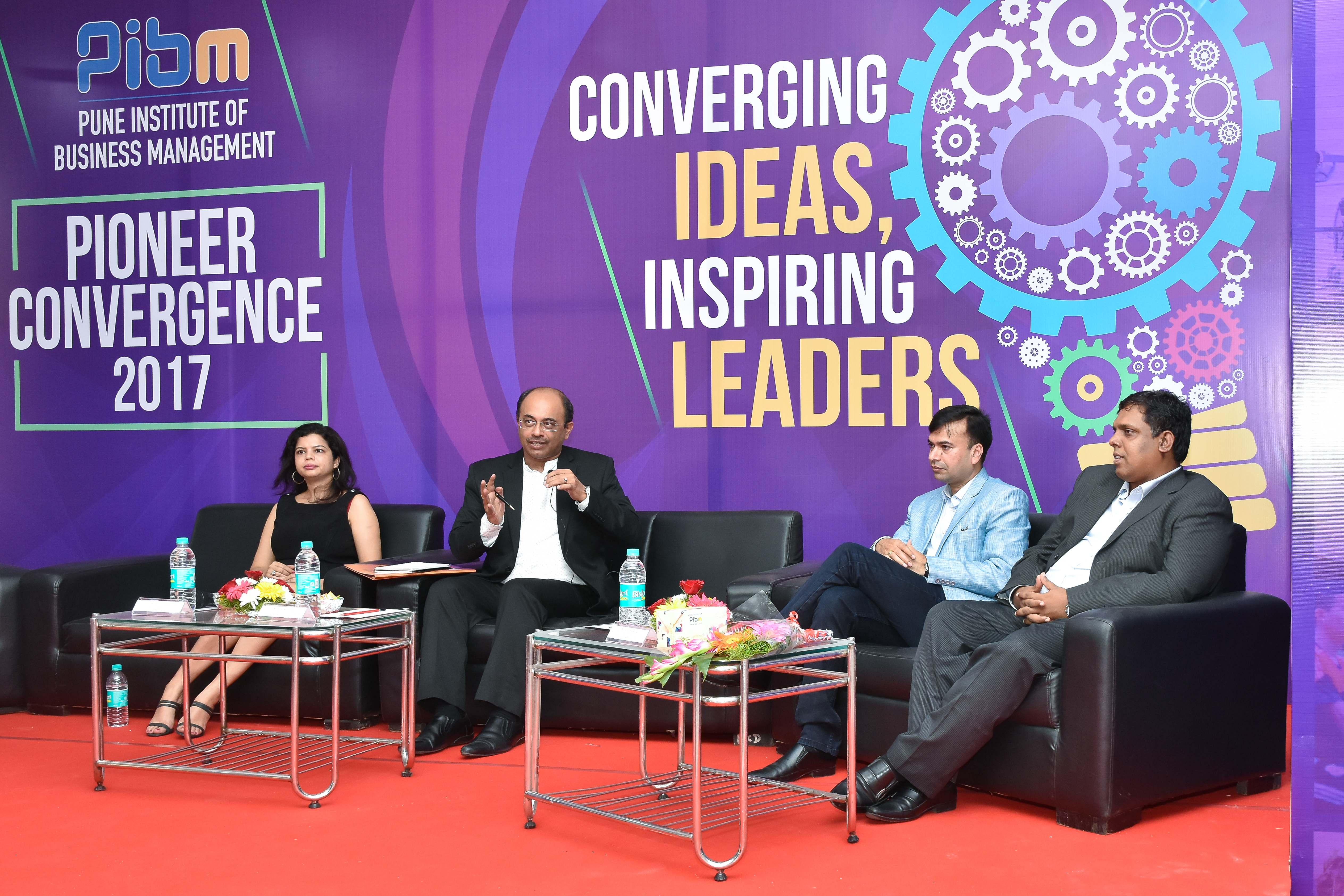 Pioneer Convergence is Annual Business Conclave